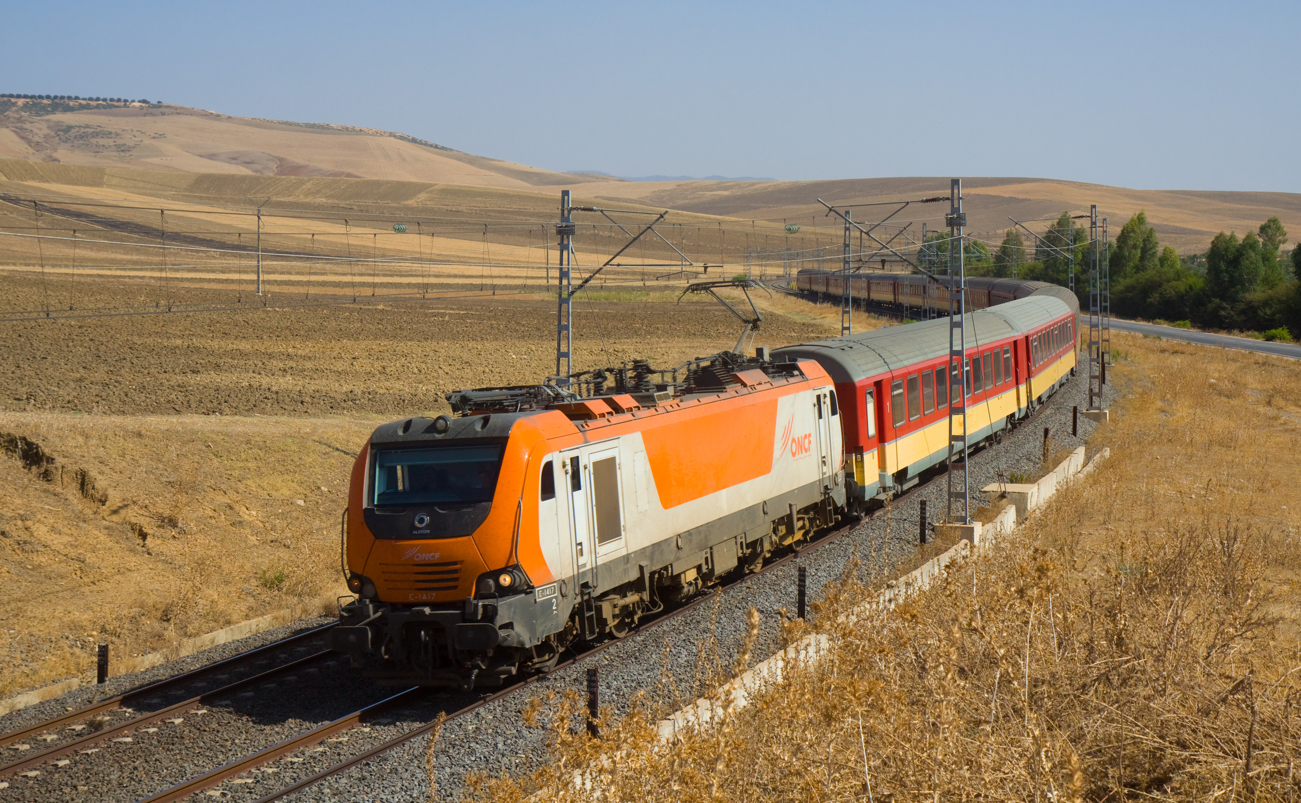 Although brand-new, ONCF's E 1417 (Alstom Prima II) has already quite dirty - no surprise under the operating conditions in Morocco. The picture was taken between Sidi Mbarek Du R'Dom and Ain El Kaerma (Meknes - Sidi Kacem).